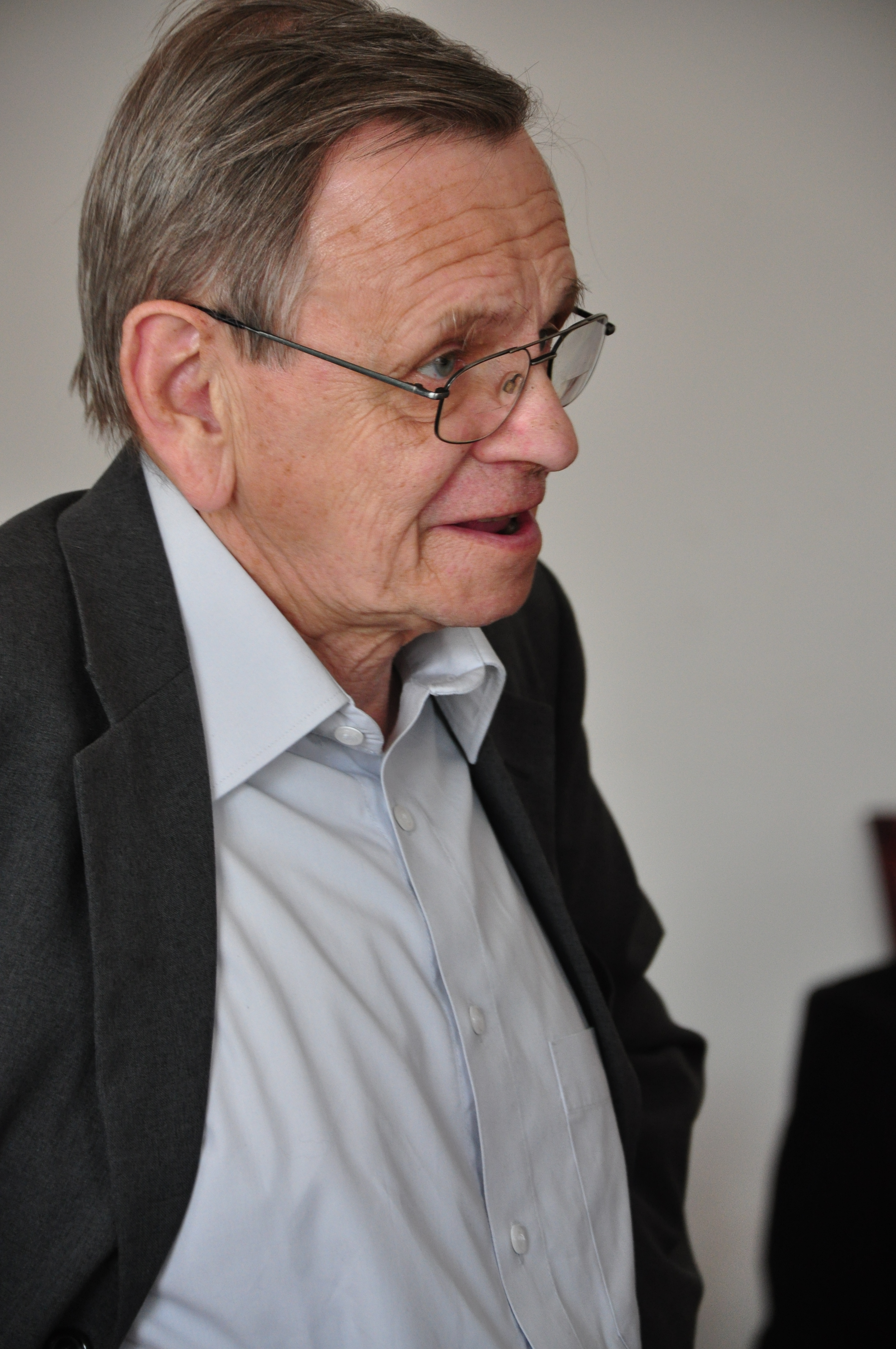 Pavel Filipi